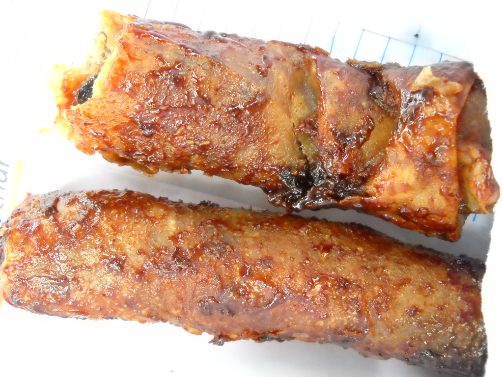 Fried banana with chocolate